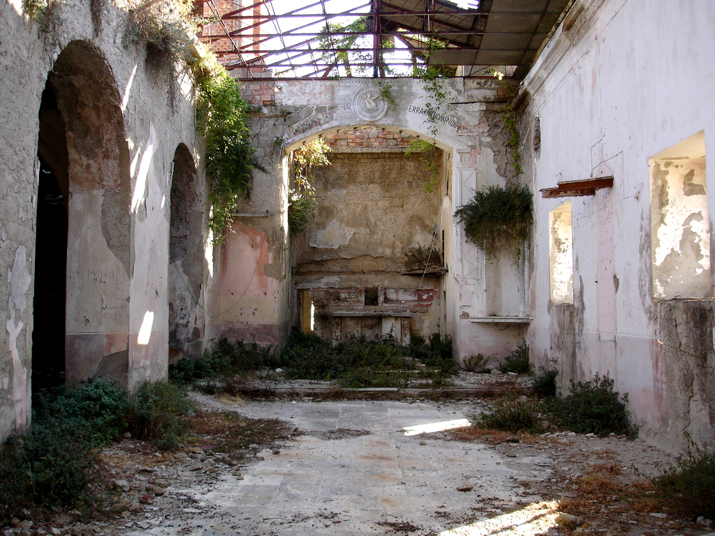 Abandoned village of Tocco Caudio (BN, Italy).